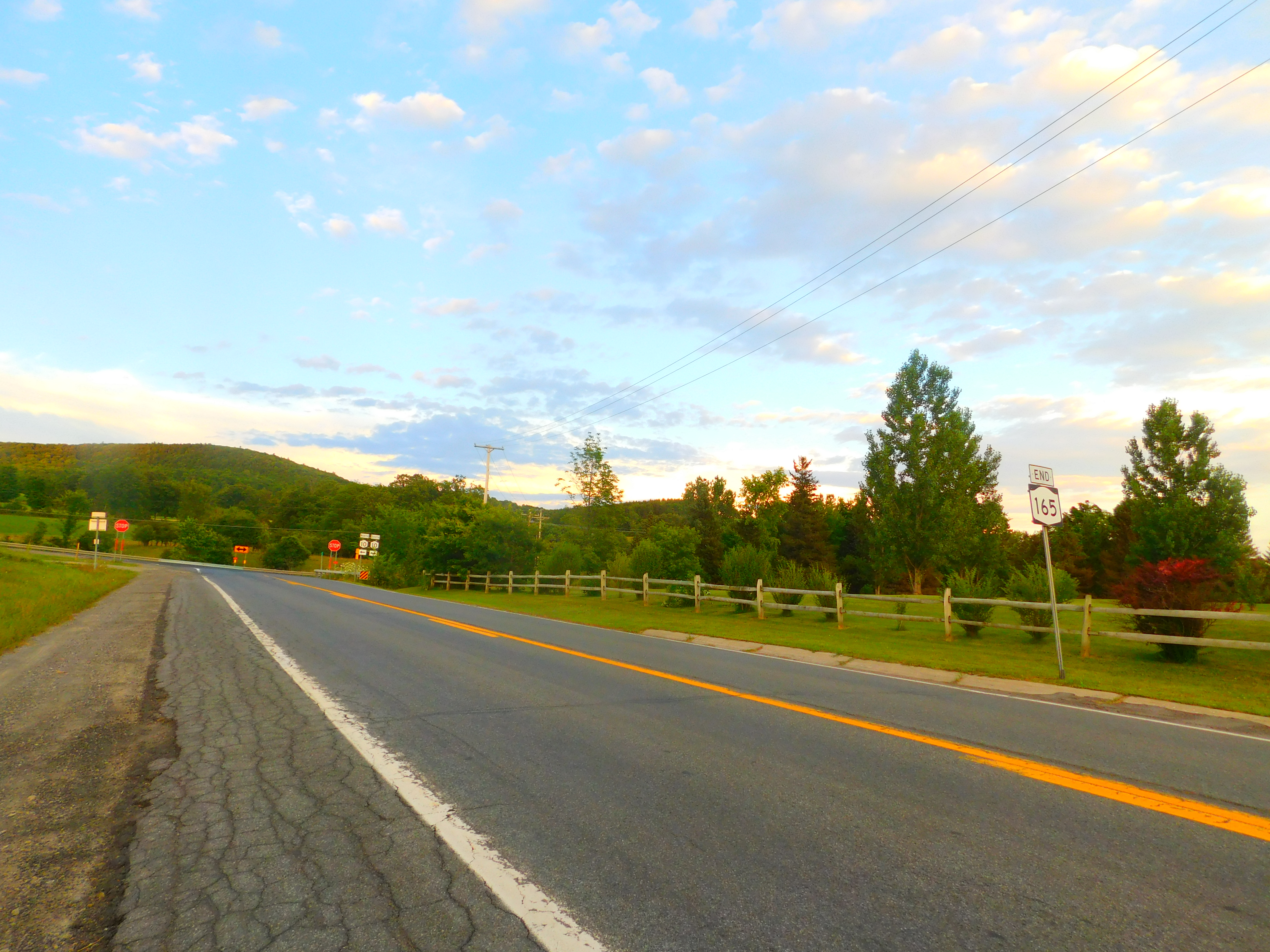 NY 165 in the town of Seward, New York.